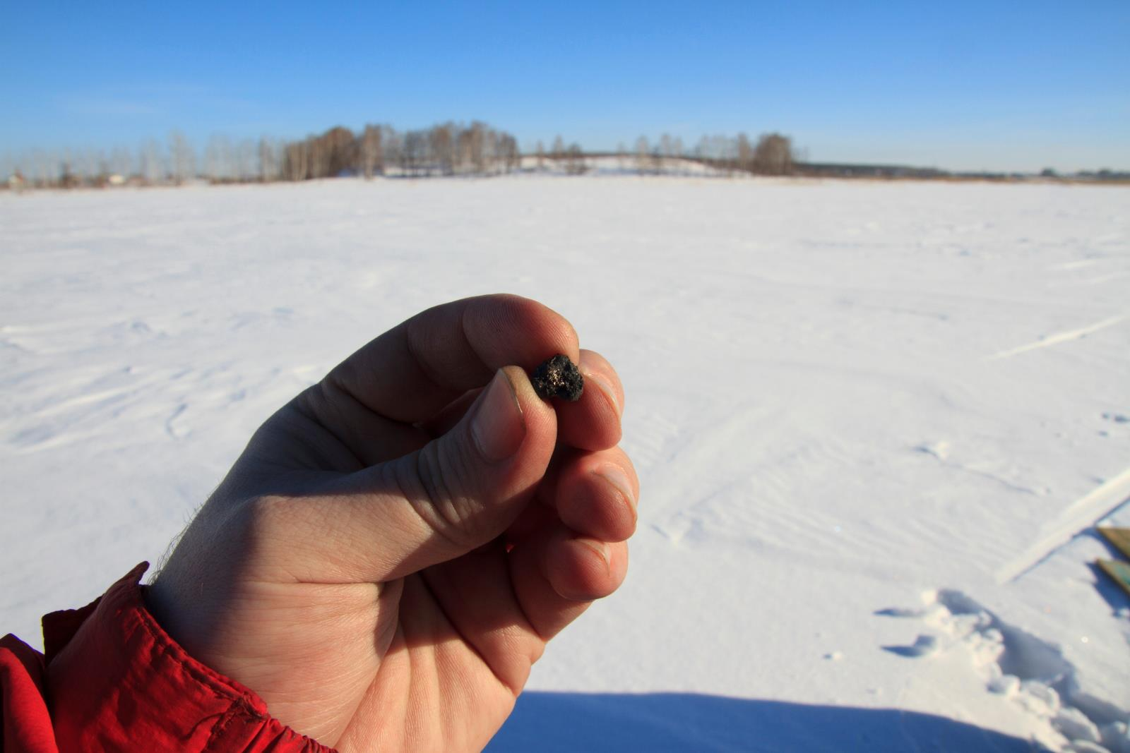 Chebarkul meteorite sample found by Ural Federal University scientists at Chebarkul lake after 2013 Russian meteor event